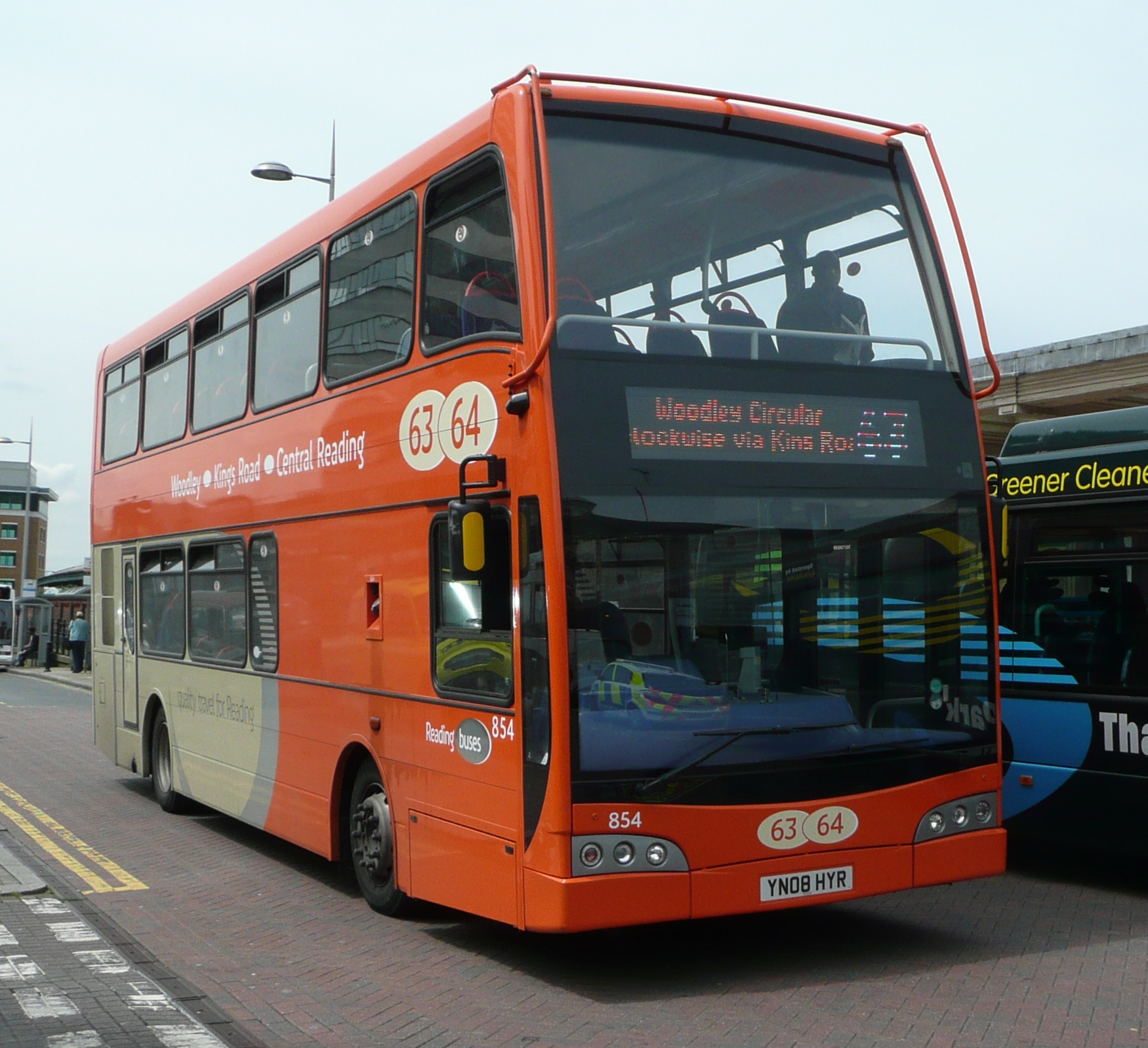 A Reading Transport bus in orange and cream livery for routes 63 and 64. The bus is a Scania N230UD with East Lancashire Olympus body, registration mark YN08 HYR, fleet number 854.